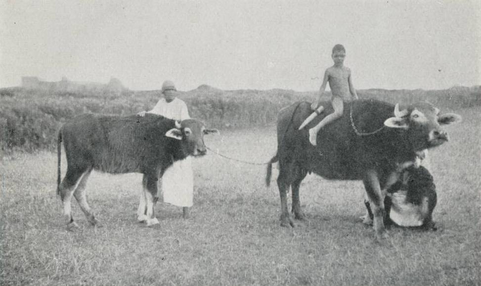 A man and a boy leading two ghamousahs (cows).